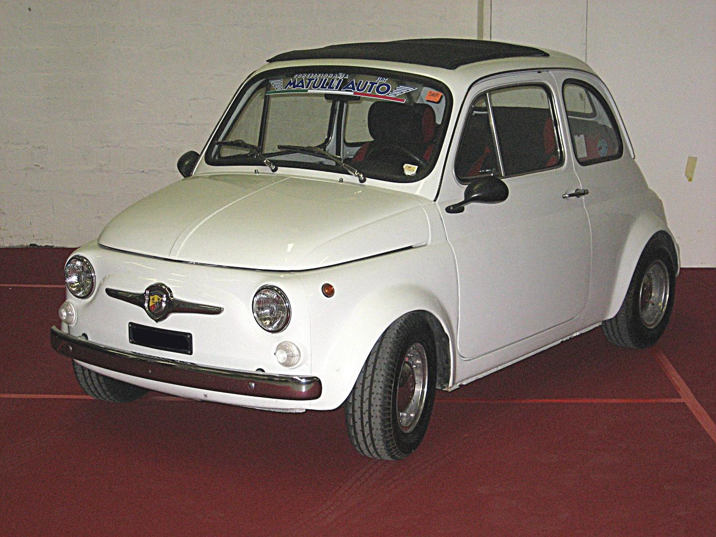 Subject:Abarth 695 Author:Luc106 Date:November 24th, 2007 Event:Markè-Retrò 2007 Place/country:Cesena (FC), Italy I release all rights in the public domain.